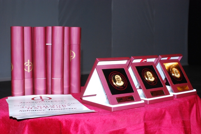 Image of Awards; JoakimInterFest, City of Kragujevac